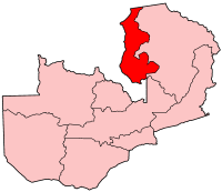 Map of Zambia showing Luapula province.